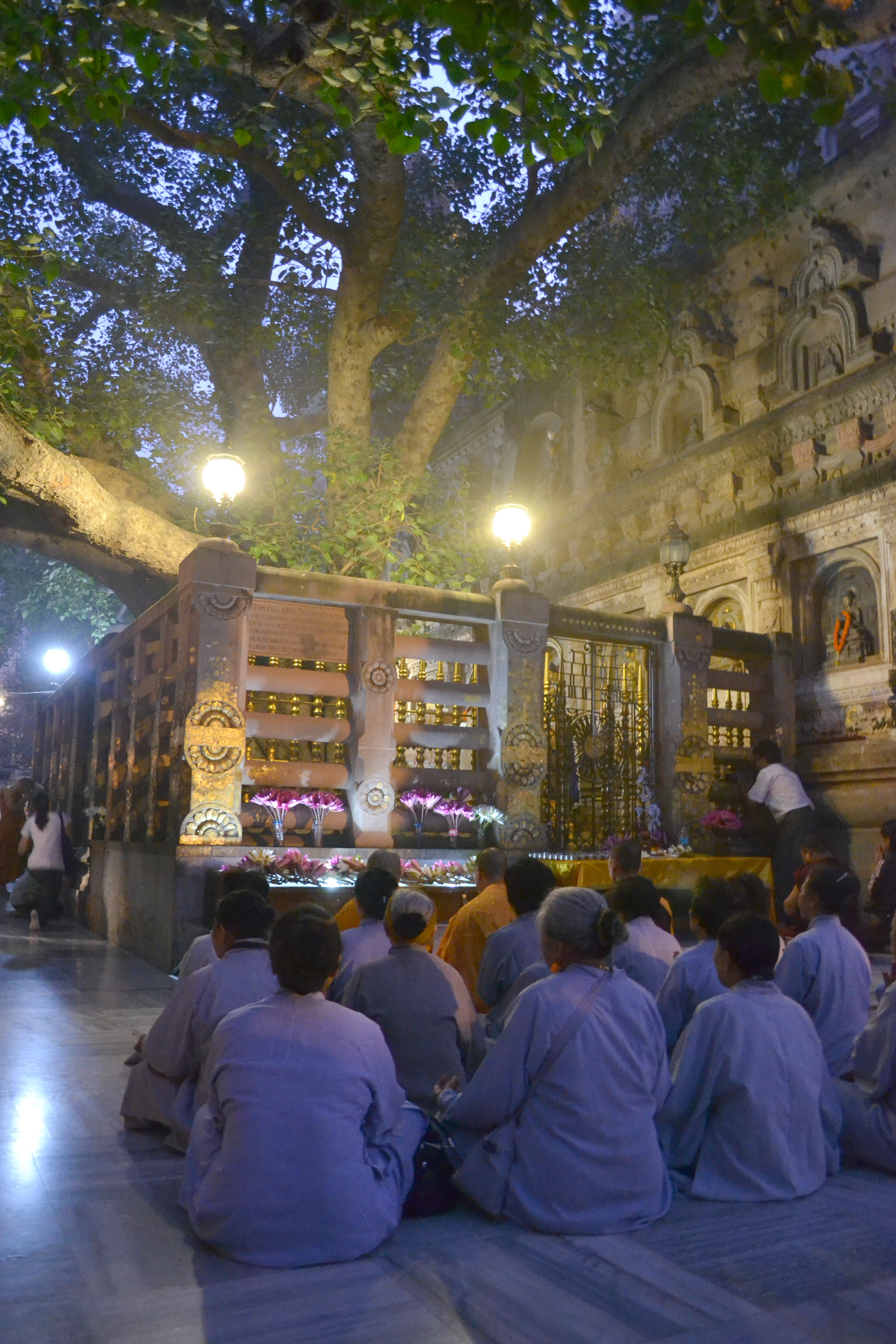 The Vajrashila, where the Buddha sat under the Bodhi Tree in Bodh Gaya, India.